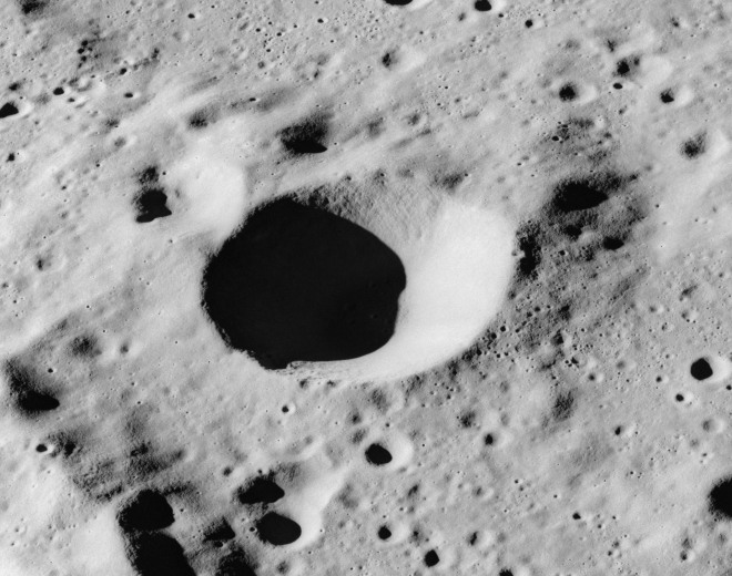 Oblique view of Glauber crater, facing north, on the far side of the moon.